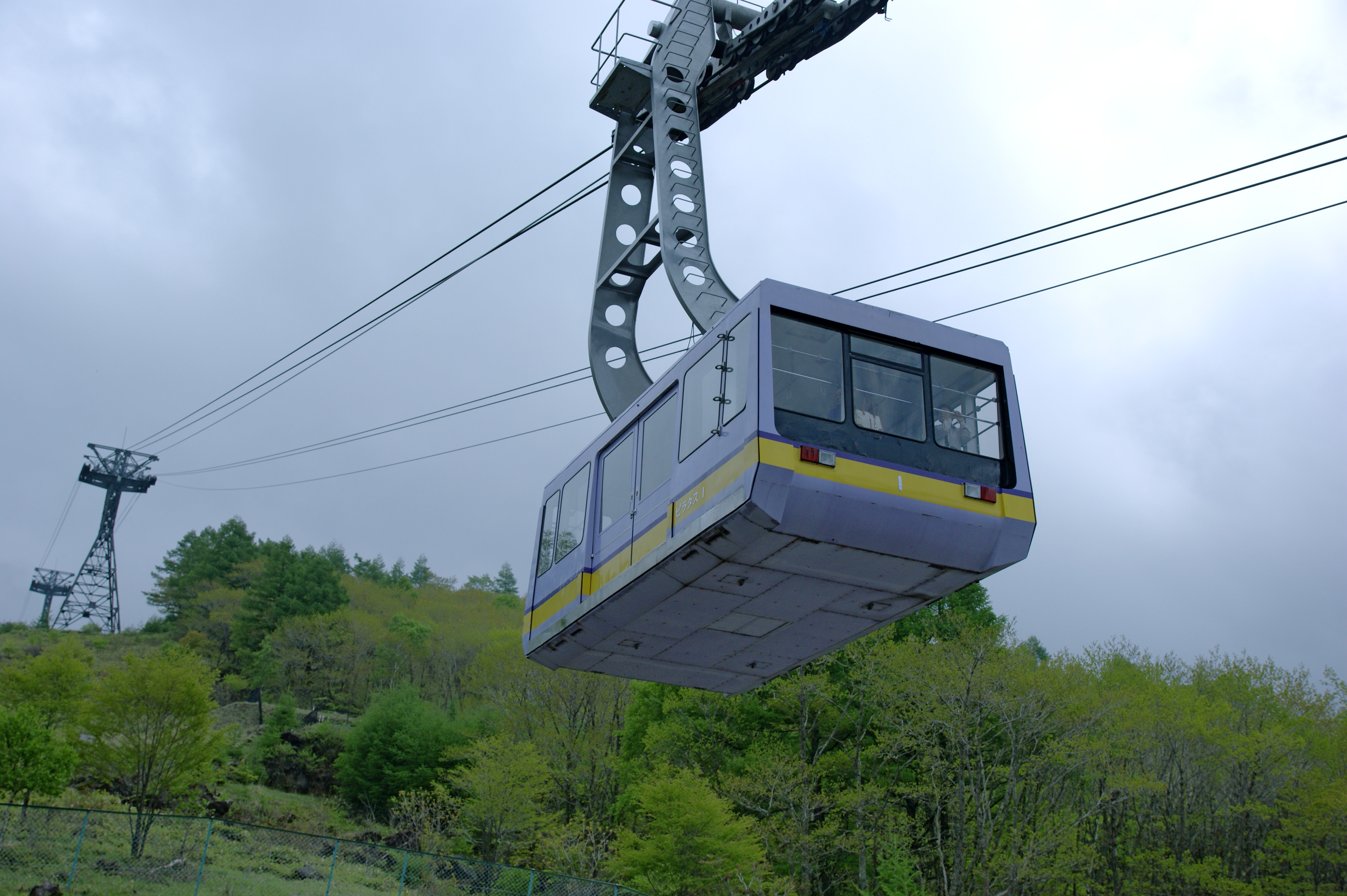 Pilatus Tateshina Rope Way in Chino, Nagano prefecture, Japan